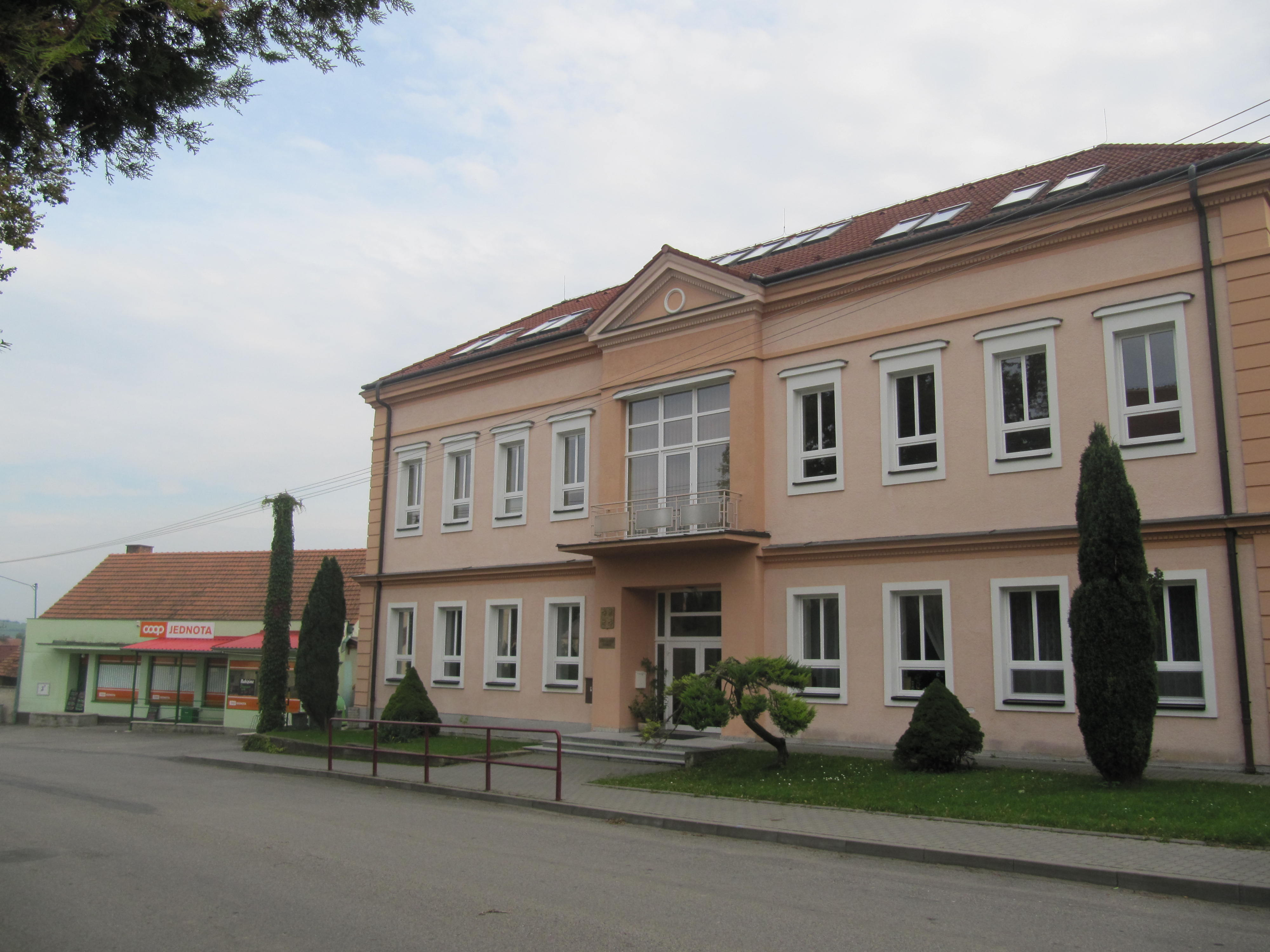 Hradčovice in Uherské Hradiště District, Czech Republic.School.